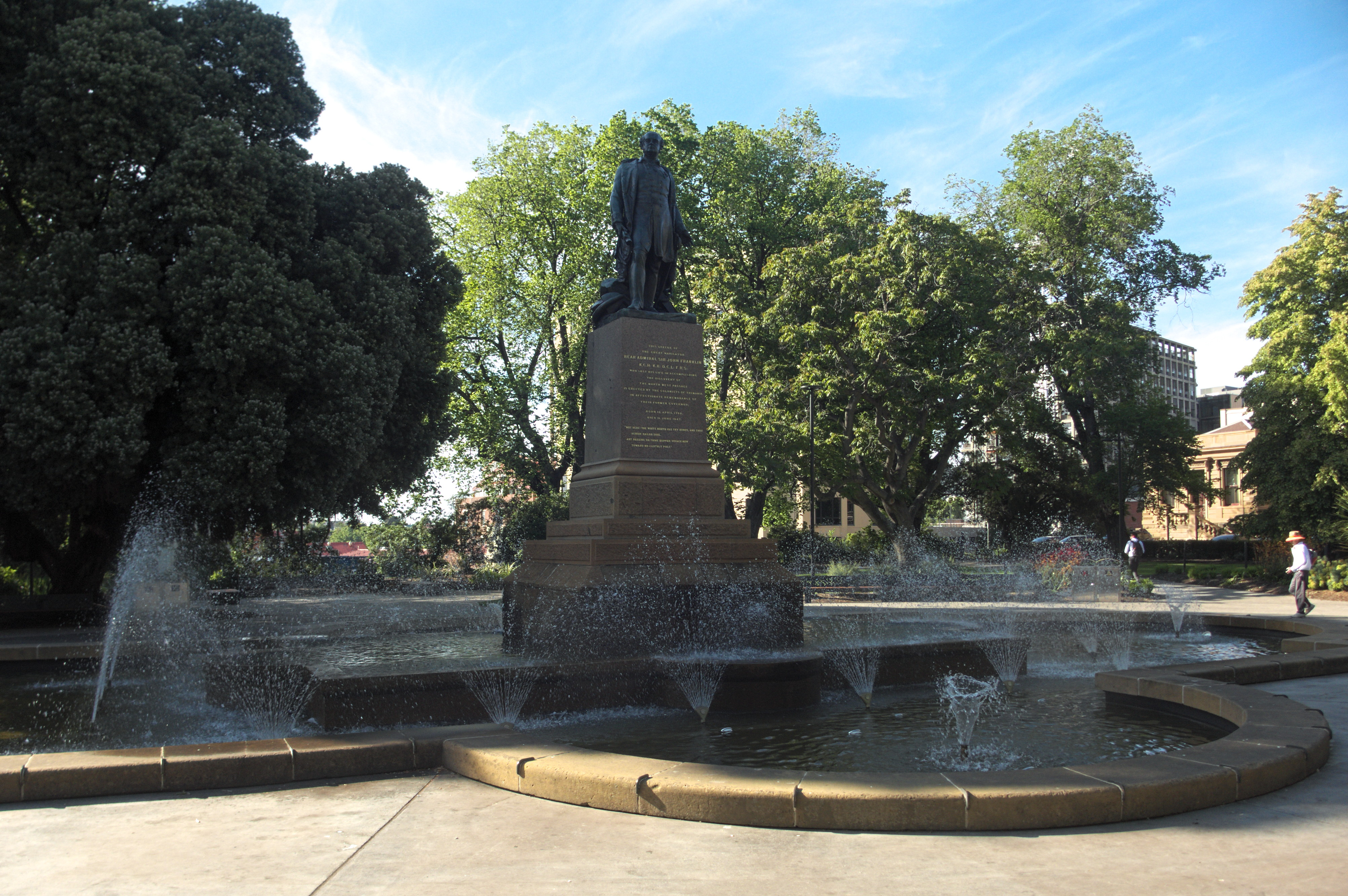 Fountain and statue of John Franklin in Franklin Square, Hobart.